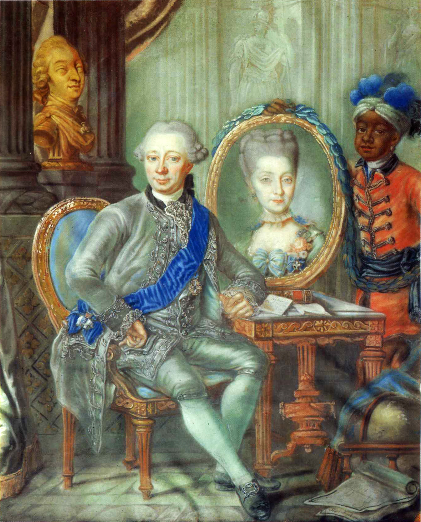 Portrait of Heinrich Carl Schimmelmann with the portrait of his wife Caroline Tugendreich with an African slave boy